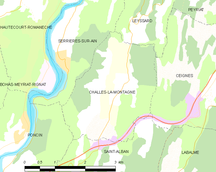 Map of French commune: Challes-la-Montagne Map commune FR insee code 01077.png